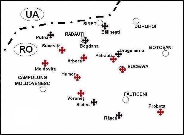 Map of monasteries in Suceava county (churches of Moldavia UNESCO sites are highlighted with red).